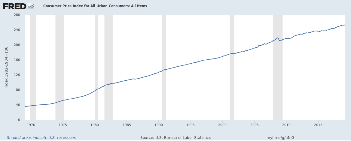 Graph obtained from FRED for Consumer Price Index for All Urban Consumers: All Items (CPIAUCSL) 1969-01-01 to 2019-03-01